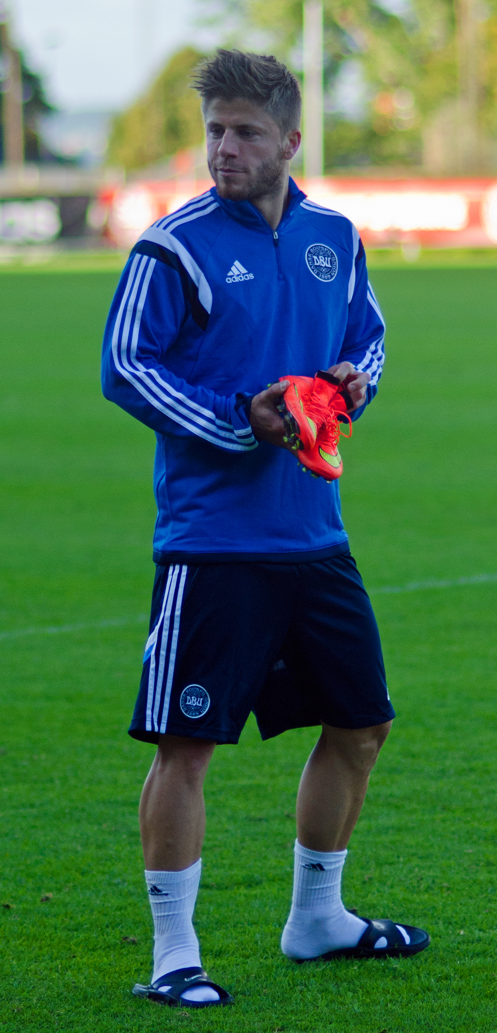 Lasse Schöne in training with Denmark national football team